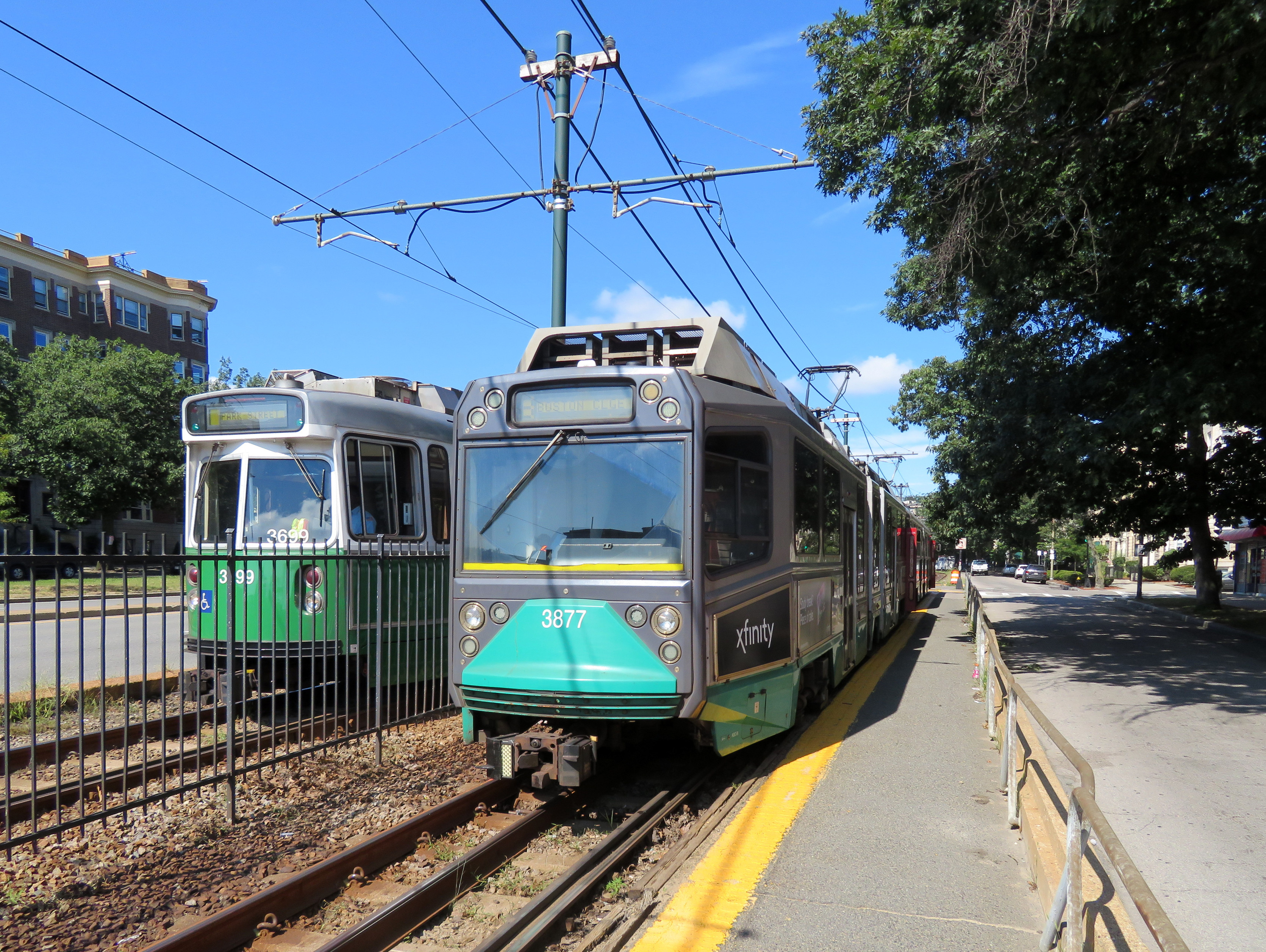 An inbound train (left, MBTA #3699, Kinki Sharyo Type 7) passes an outbound train (right, MBTA #3877, AnsaldoBreda Type 8) at Allston Street station in August 2018. Compared to original, this photograph has been processed using Hugin to make vertical lines more upright.